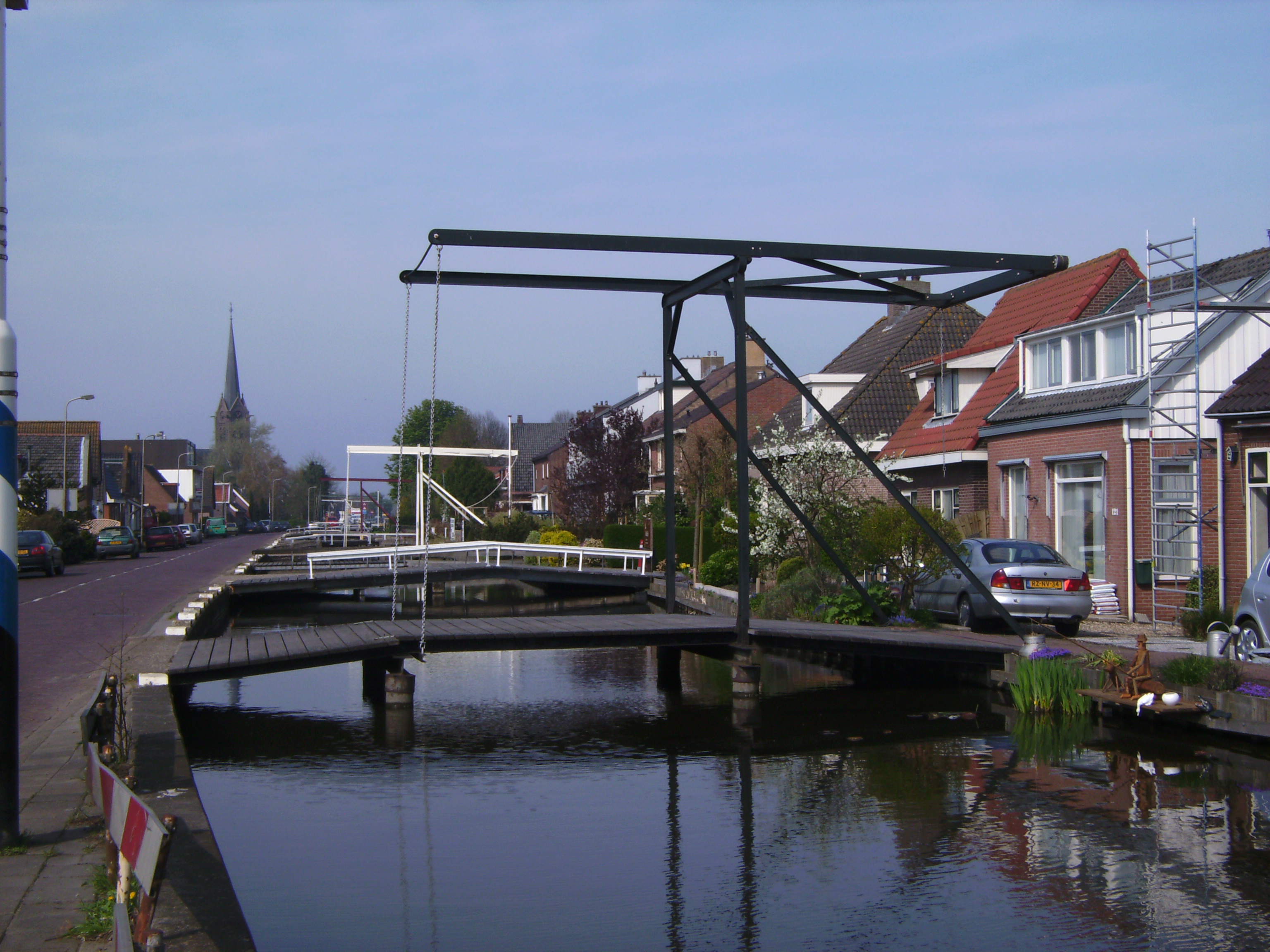 Stompwijk, view to the village